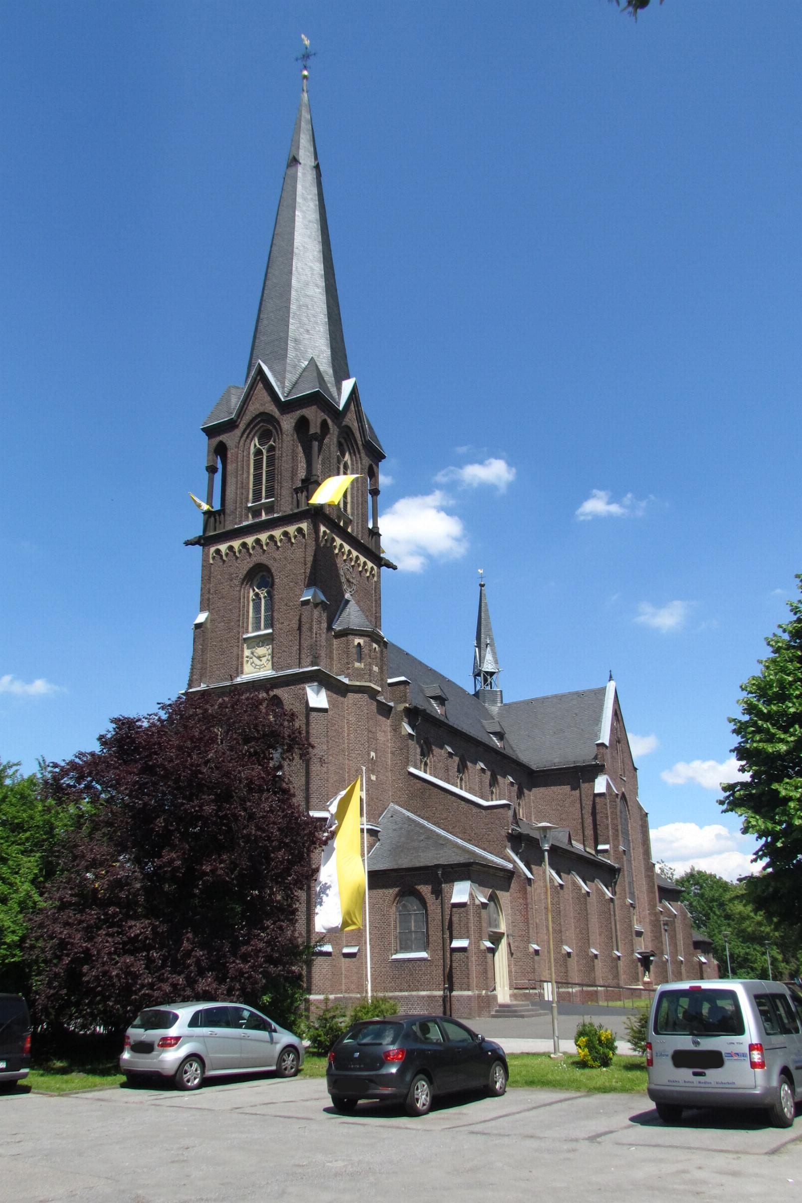 This is a photograph of an architectural monument.It is on the list of cultural monuments of Korschenbroich